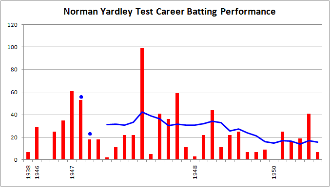 Test career batting chart for Norman Yardley. Blue line is an average for ten most recent innings, blue dots are not outs. Bars are runs scored.